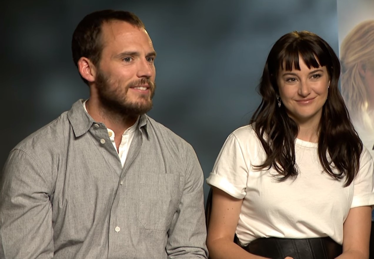 Stars of new ocean survival drama Adrift, Sam Claflin and Shailene Woodley, sit down with MTV to reveal their hilarious (and totally gross) fave memories of each other, and the deleted scenes you WON’T see in cinemas. WARNING: Don’t watch while eating.